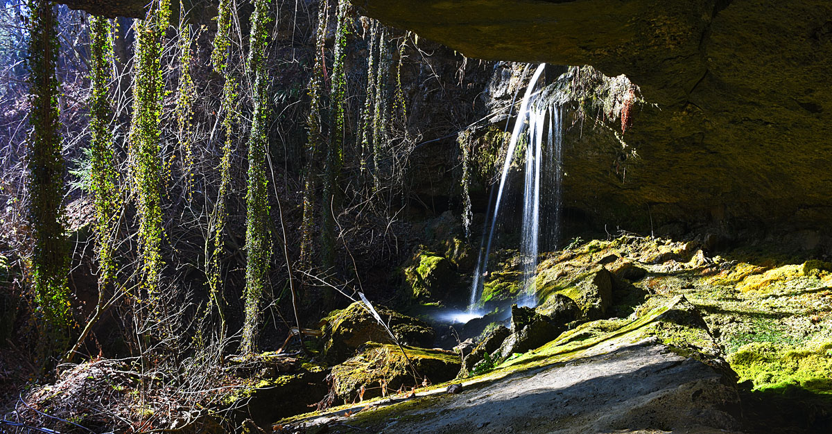 The most picturesque and one of the longest caves in Udin boršt (forrest). The caves in this area are a rare exaple of caves in conglomerate.